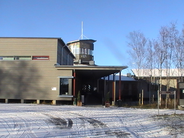 The naturecenter of Liminganlahti in October 2013. The building was opened in 1998.